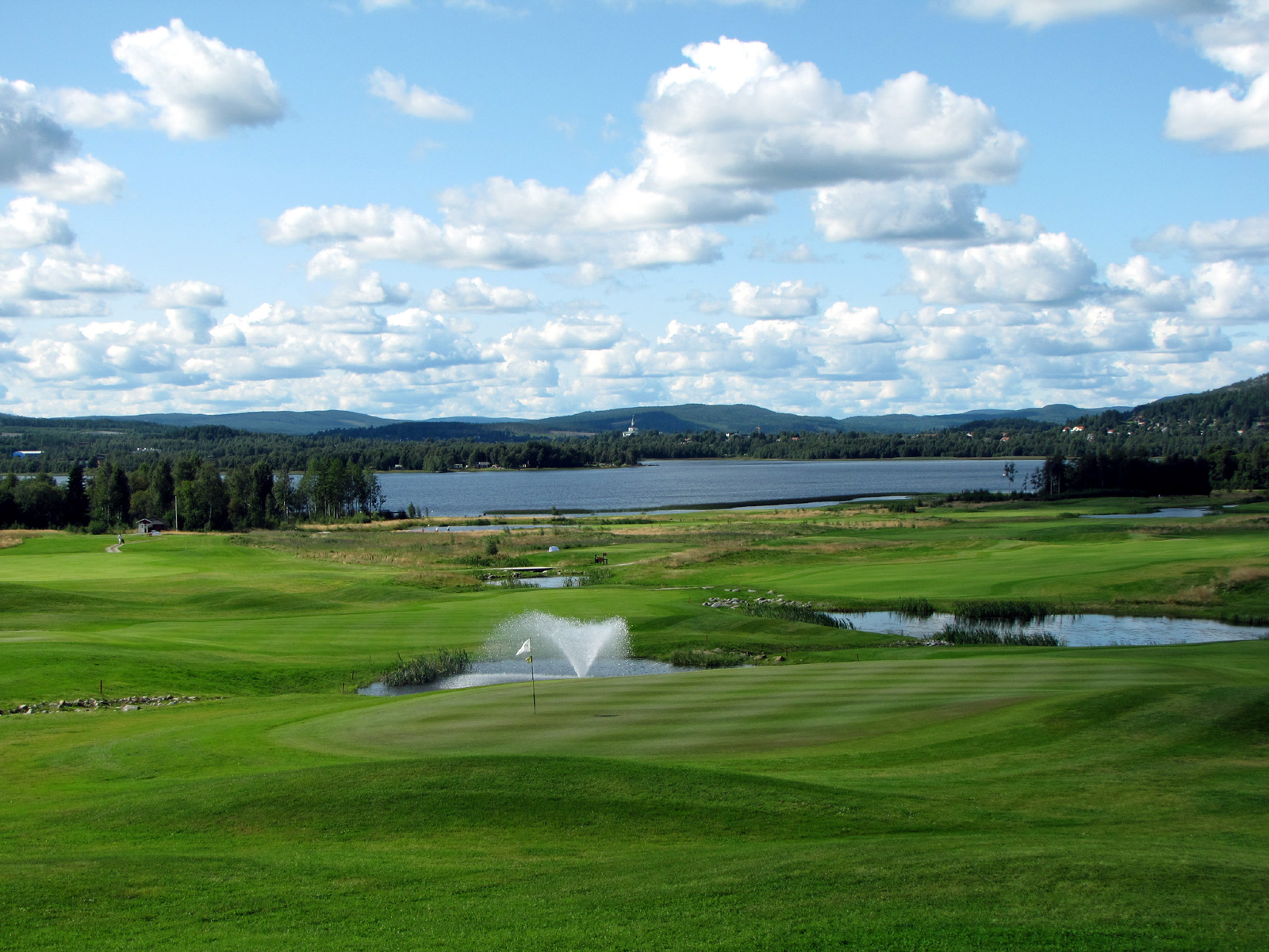 Veckefjärdens Golf Club in Örnsköldsvik, Sweden